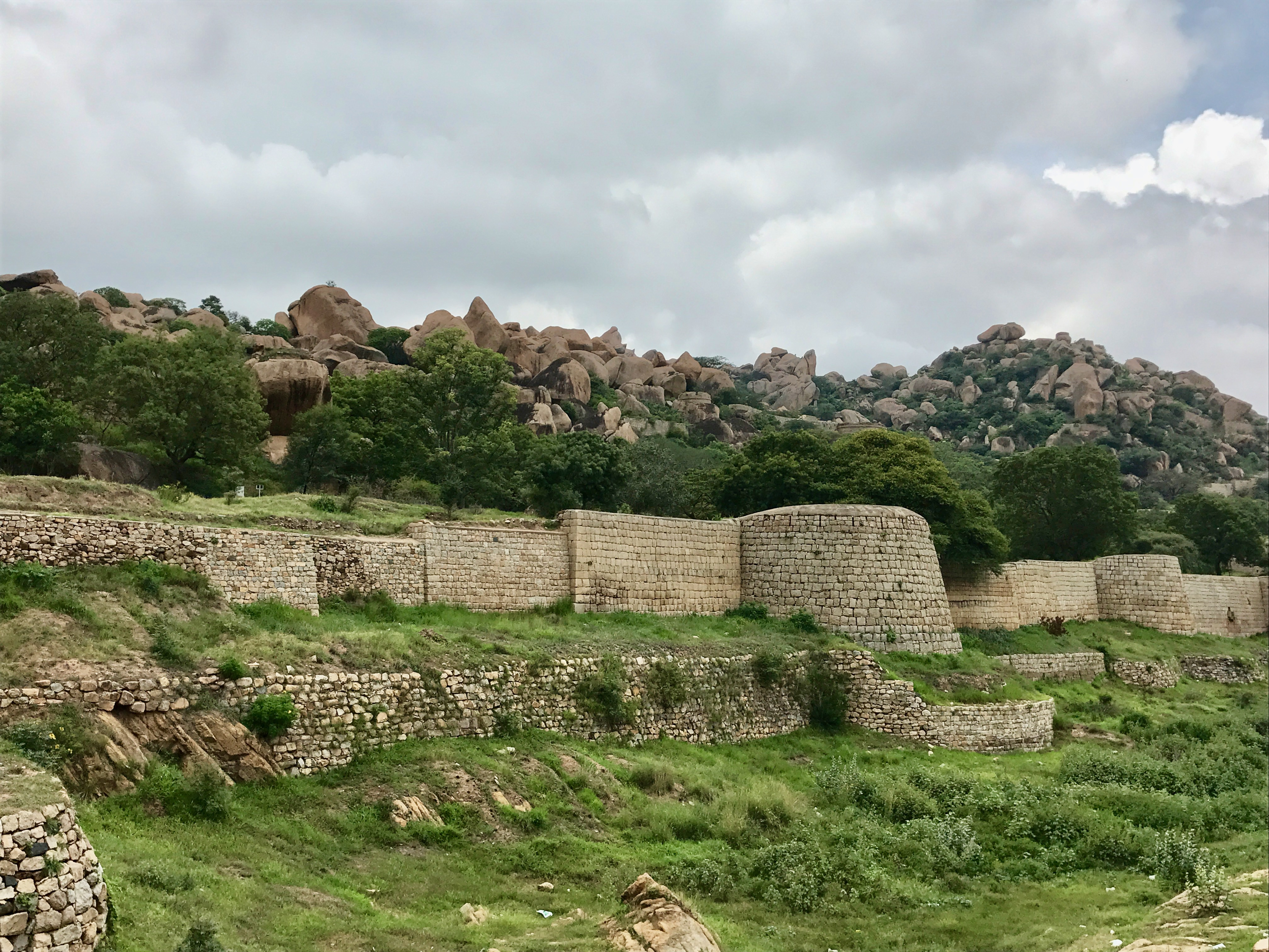 Chitradurga fort was built in stages between the 11th and 13th century by Hindu dynasties, and later served as an important fort for the Vijayanagara Empire. It was taken over by Haider Ali and his son Tipu Sultan after their coup over Mysore kingdom. After 20 years under Haider Ali and Tipu Sultan, the British captured it. The fort consists of seven layers of fortifications, with many strategically designed gates. Inside the fort are living quarters, granaries, water reservoirs and 18 significant Hindu temples built between 11th and 17th centuries CE.